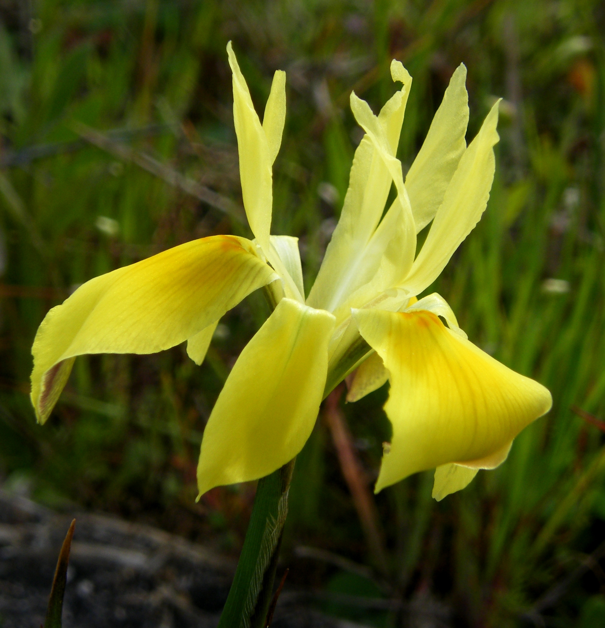 Moraea fugax